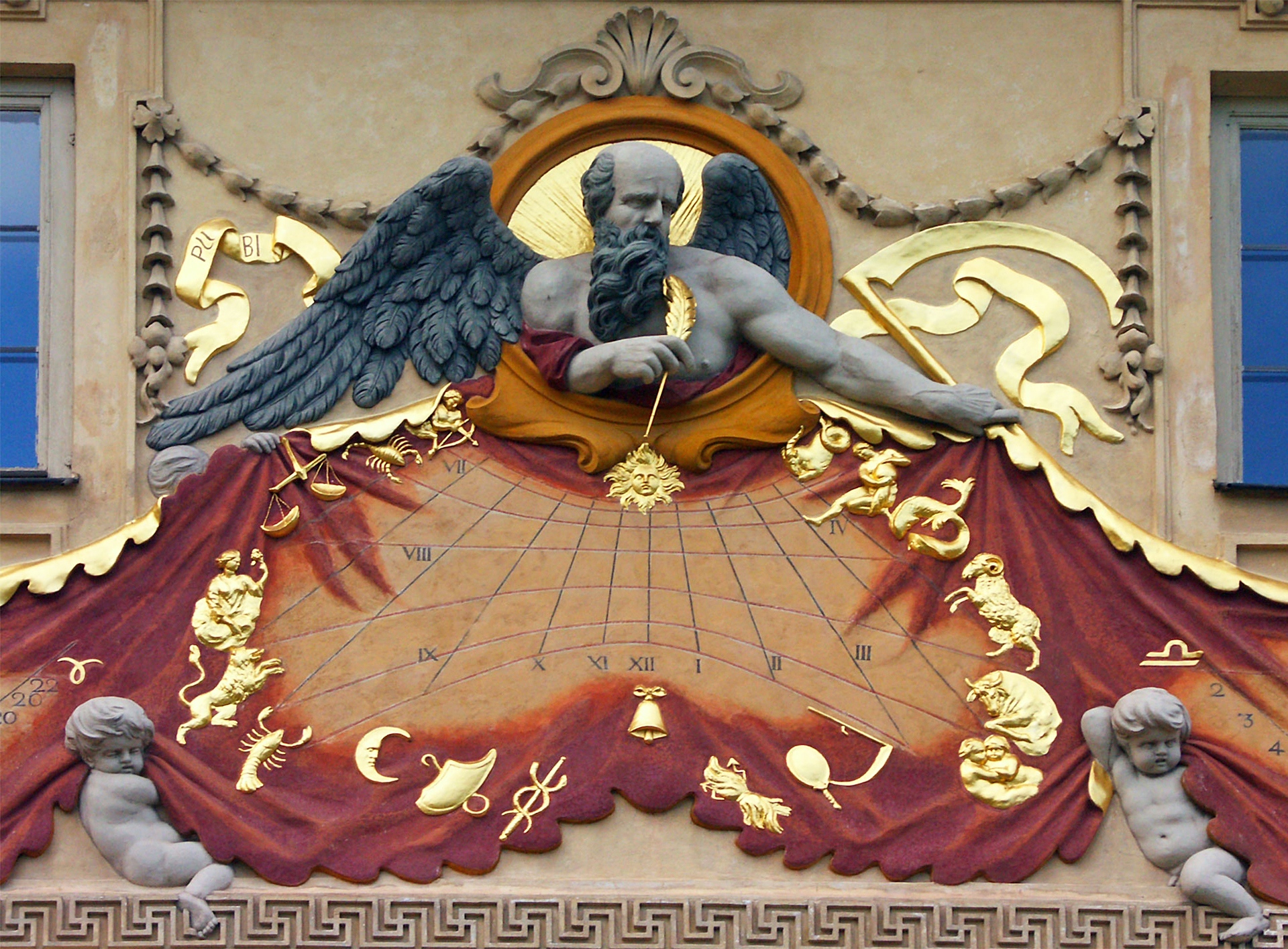 Sundial of Wilanow Palace at Warsaw, Poland issued by stucco decorator Antoni of Wilanów, according to design by Johannes Hevelius (detail with Chronos).